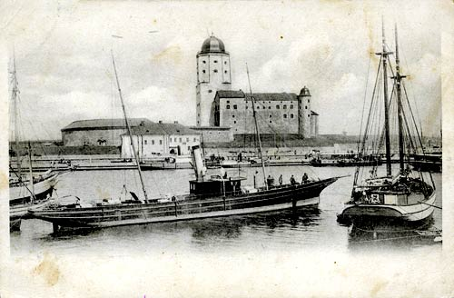 Vyborg Castle in 1900s (postcard)